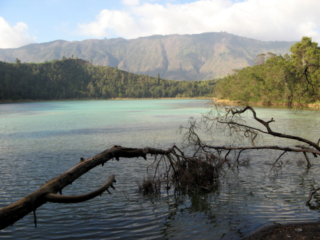 This lake, southeast of C. Bima, is renowned for its turquoise waters. The hills in the background remind the visitor that Dieng literally means "the home of the gods." It is a misty caldera, surrounded by spectacular mountain peaks and ridges.